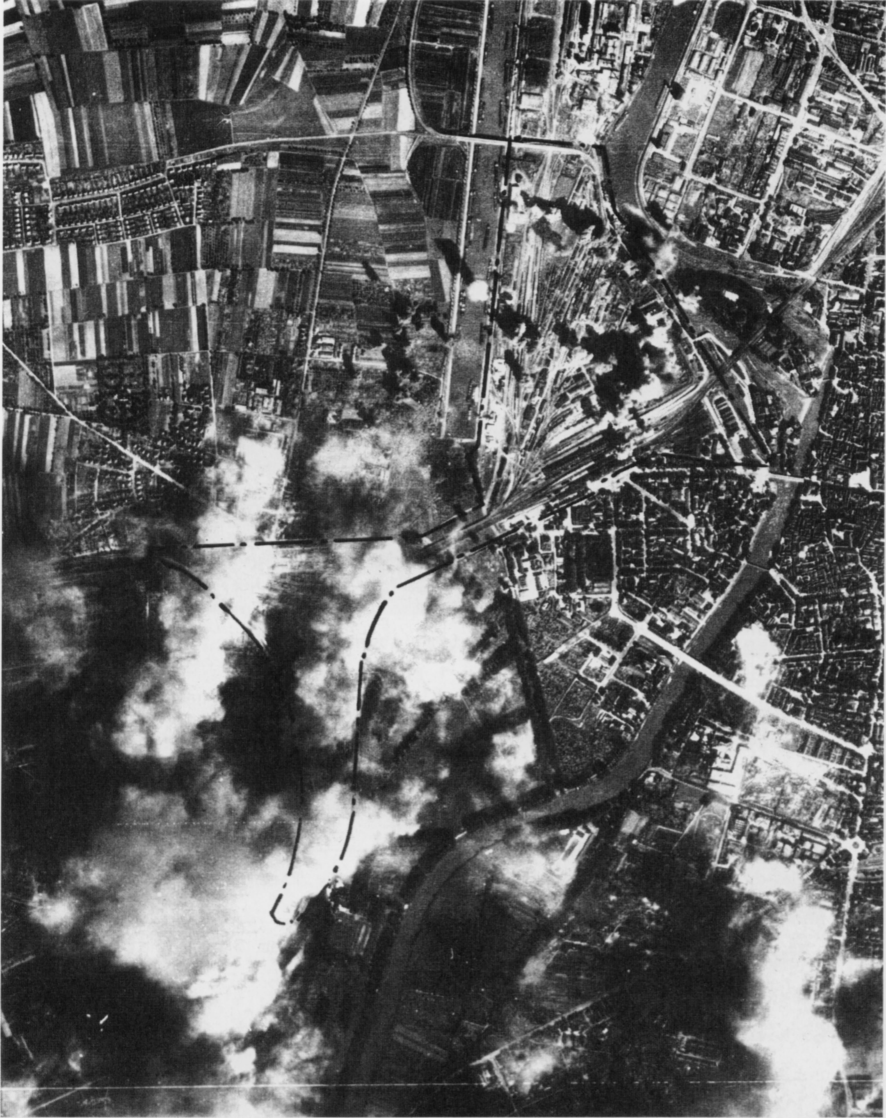 Aerial photo of the September 10, 1944 air raid on Heilbronn's classification and on Heilbronn-Böckingen